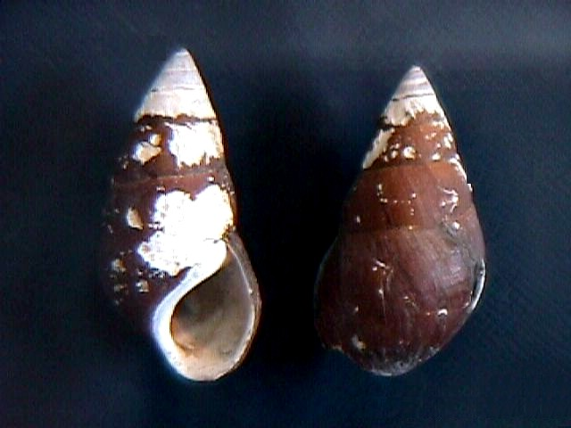 Photo of shells of Pachychilus laevisimus